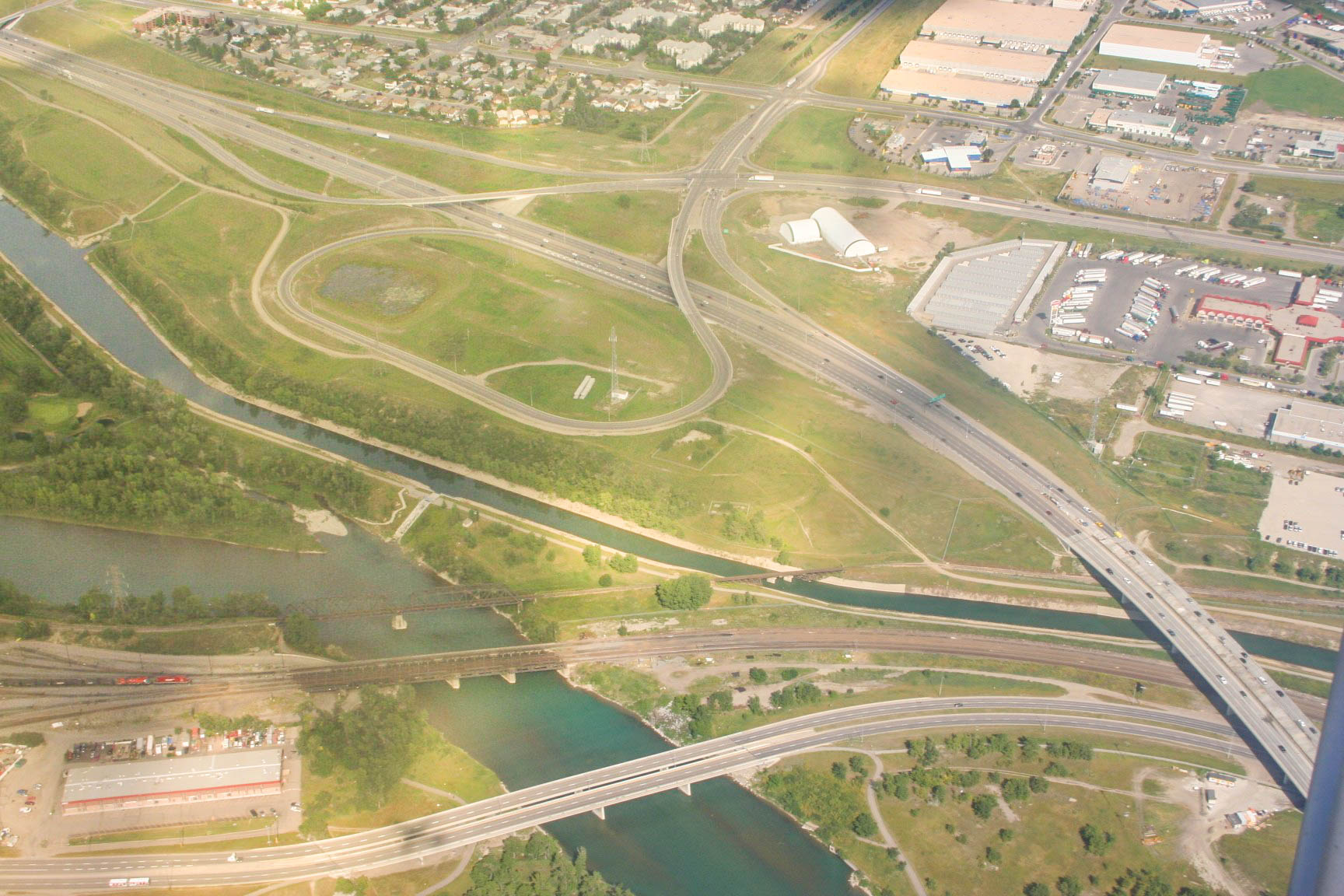 Aerial photograph of the interchange at Peigan Trail and Deerfoot Trail in Calgary, Alberta, Canada.